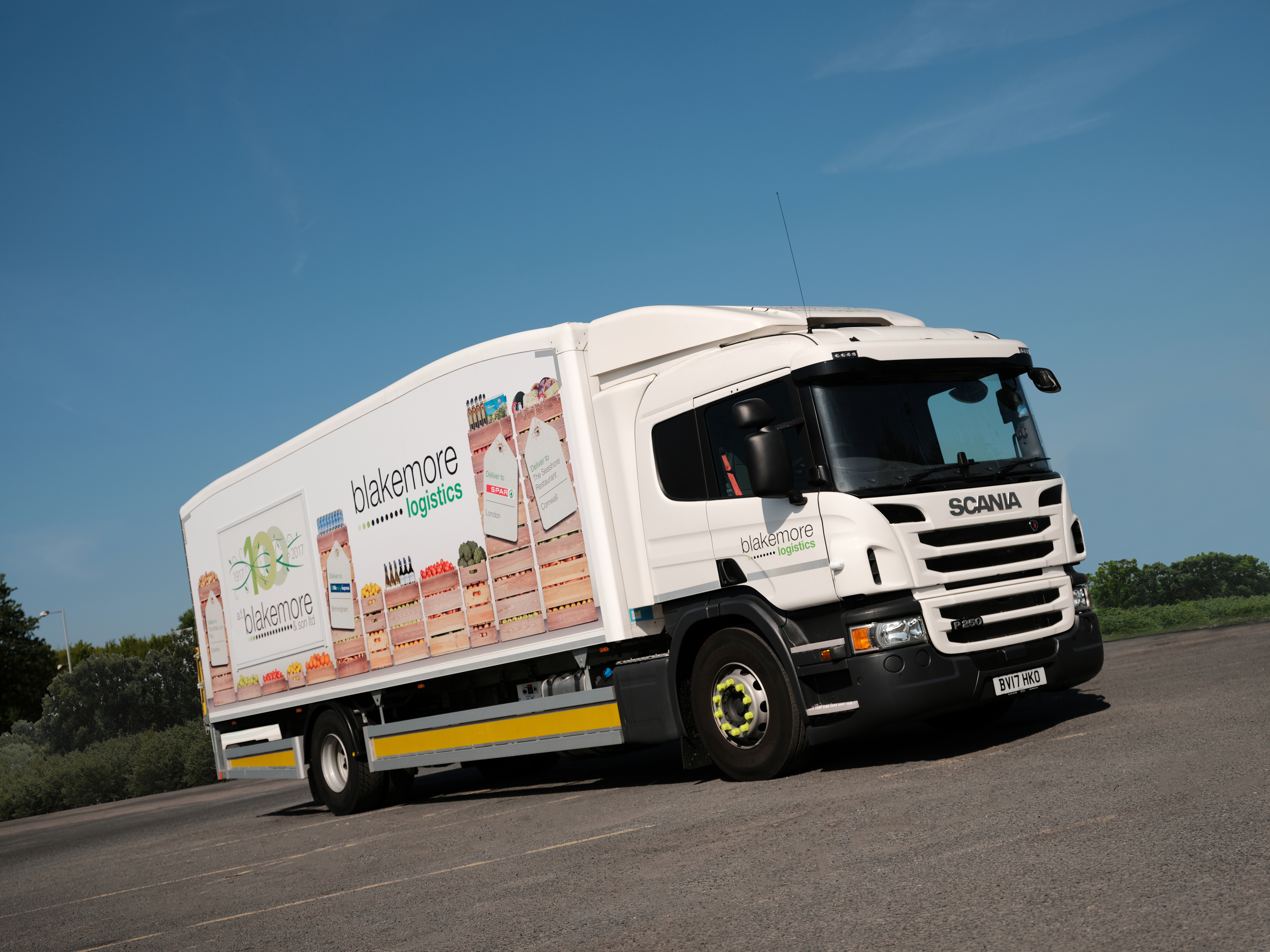 Blakemore Logistics SPAR distribution